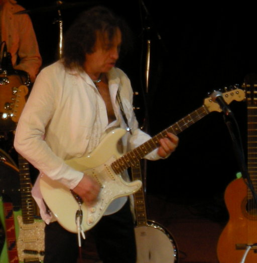 Victor Zinchuk (Зинчук, Виктор Иванович), a Russian guitarist. Performing in the Central House of Artist, Moscow, Feb 27th 2010.